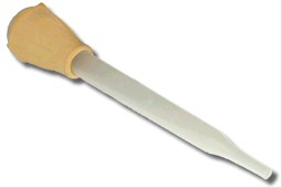 Baster